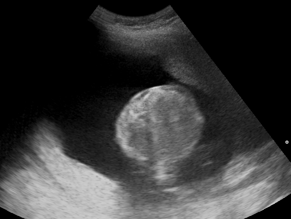 Polyhidramnios. Fetus not filling AP diameter of uterine cavity. Medical ultrasound image. Provided as-is. Please feel free to categorise, add description, crop.